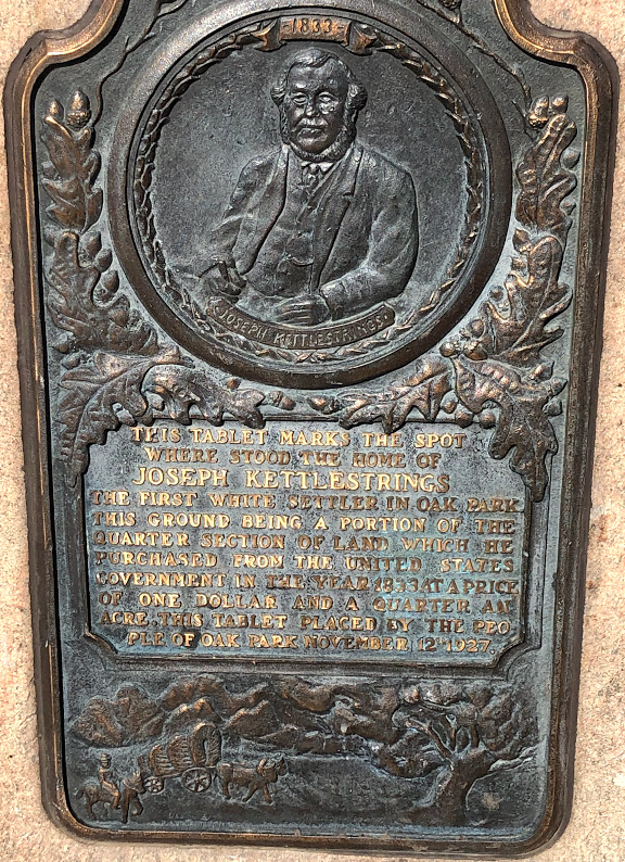 Kettlestrings plaque at Scoville Park in Oak Park, Illinois